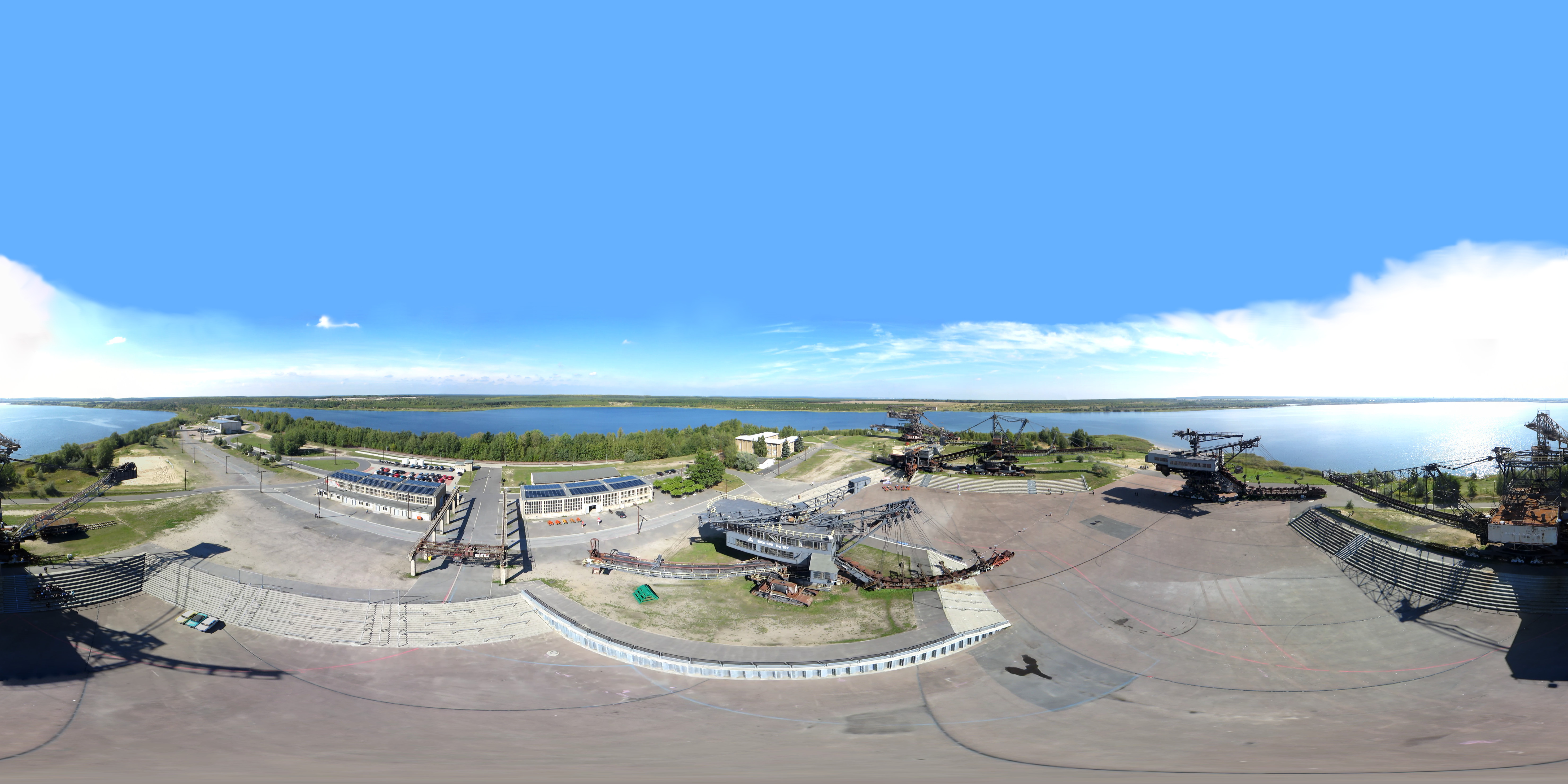 Cultural heritage monument and museum of surface mining bucket-wheel excavators, witch is also used for several events (also konwn as Ferropolis). This is a 360-degree panorama with stereographic projection, taken from the air with multicopter at Ferropolis. The lake "Gremminer See" and Ferropolis are located where a removed town, wich was named Gremmin was placed bevore, next to Gräfenhainichen, a city near Dessau, Germany. Viewing with panoramic viewer recommented. This is a photograph of an architectural monument.